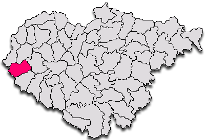 Map Salaj County Romania